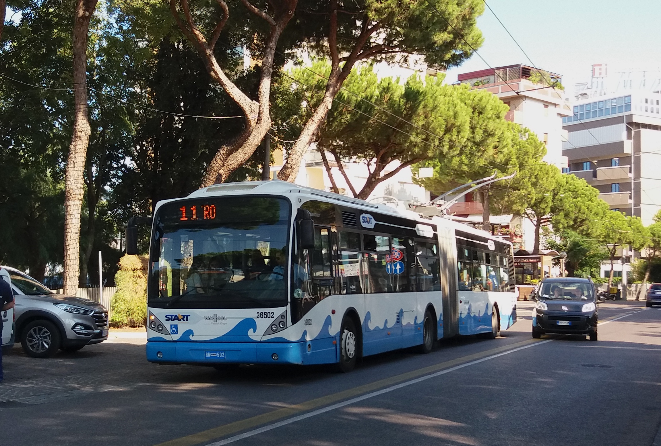 Rimini trolleybus 36502, a 2009 Van Hool AG300T, westbound on Via Amerigo Vespucci near Via Paolo Mantegazza, inbound from Riccione on line 11